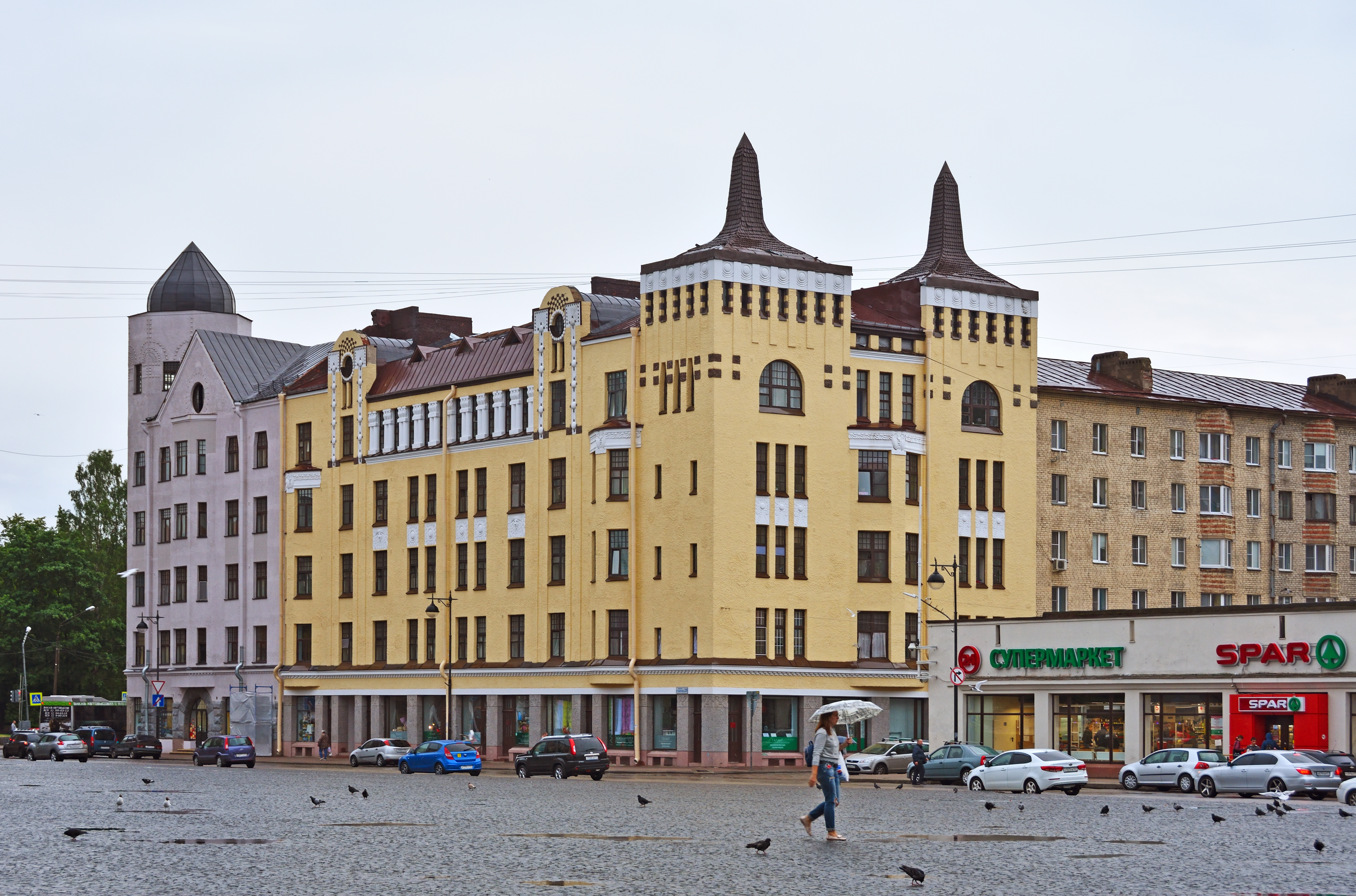 Moskvin house, Suvorov Avenue 25, Vyborg, Leningrad oblast, Russia